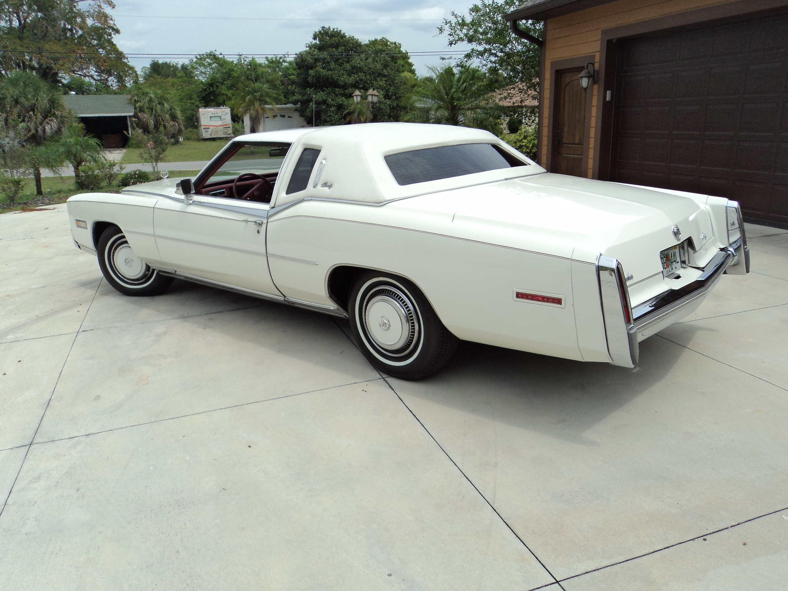 1978 Cadillac Eldorado Biarritz.